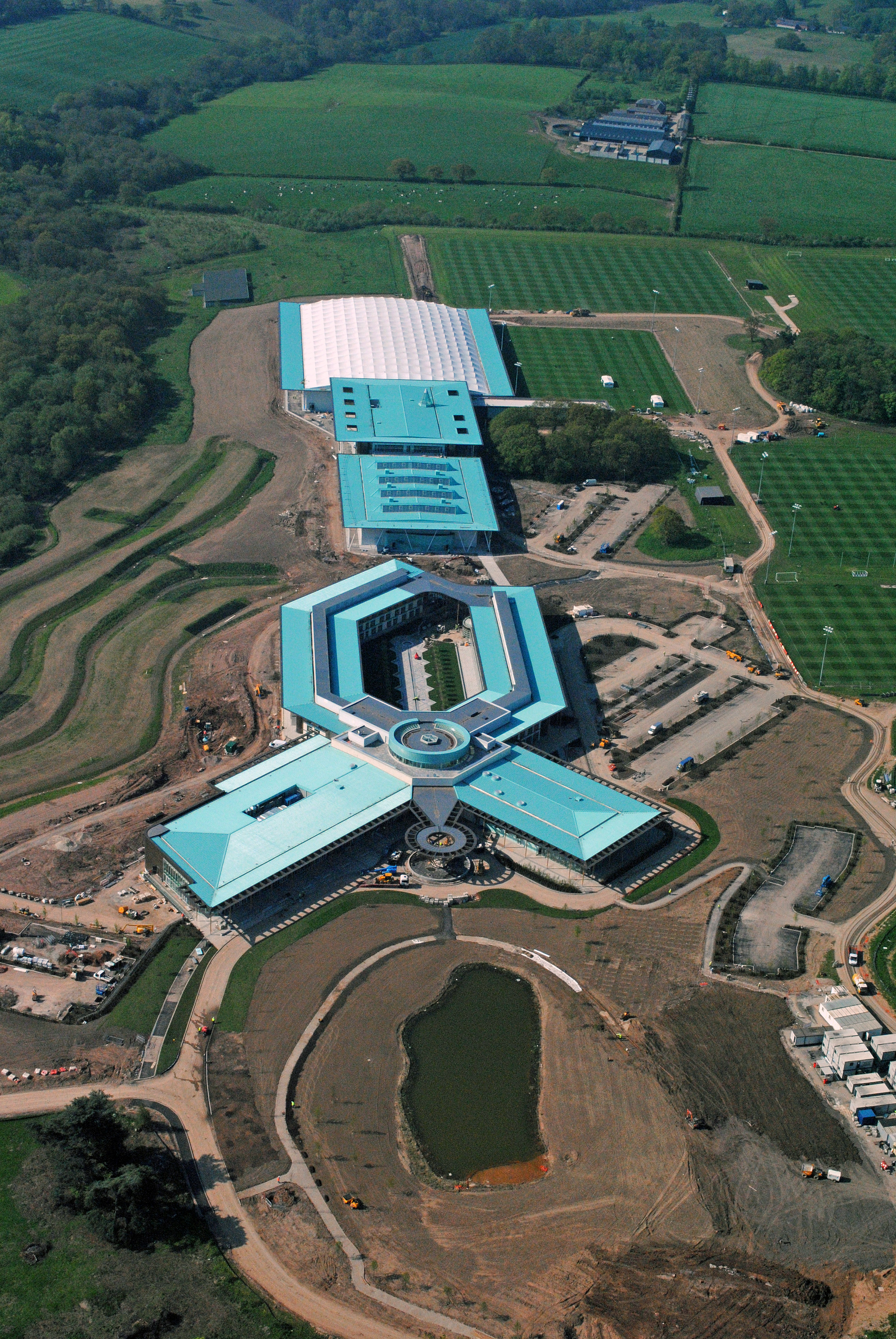 Aerial photograph of St George's Park taken May 2012